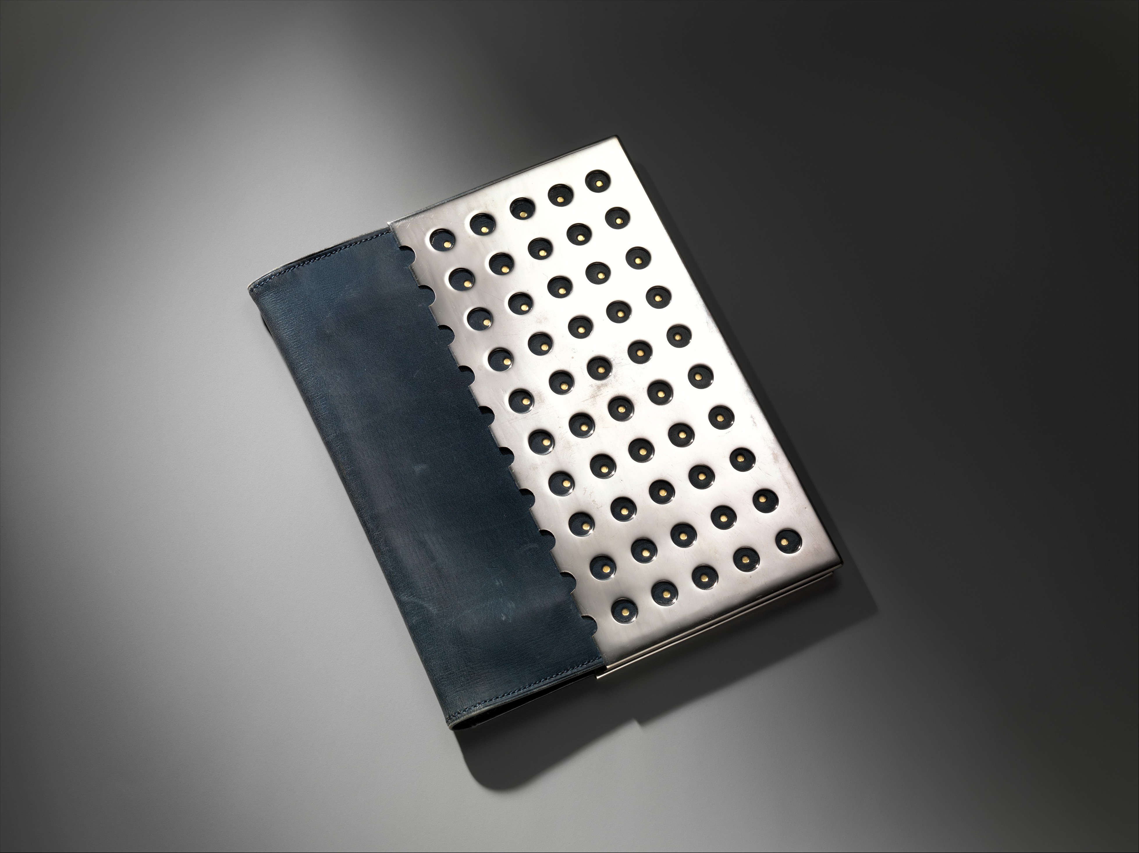 Portfolio designed by Pierre Legrain. For more information